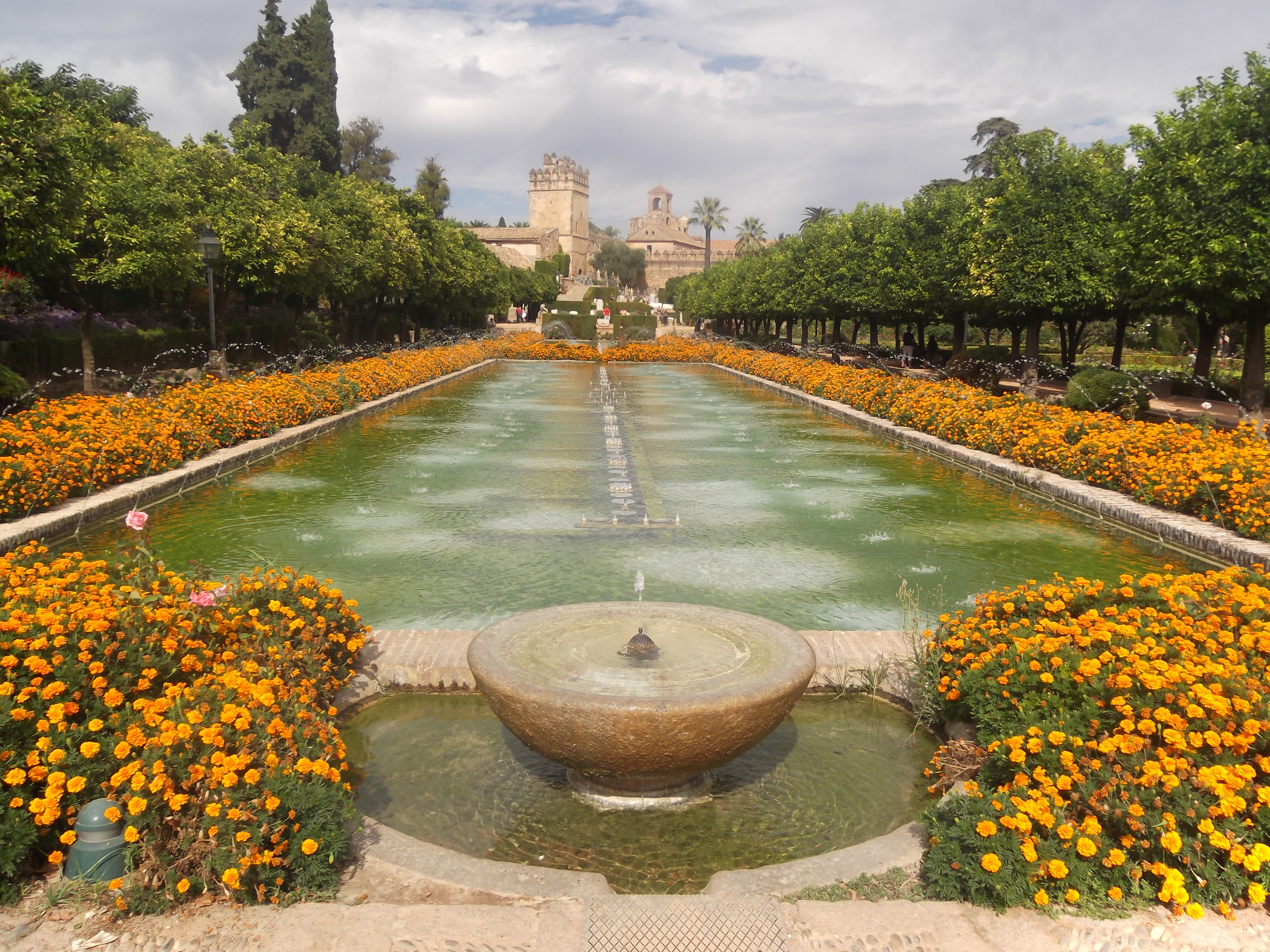 The royal Garden and Palace in Cordoba